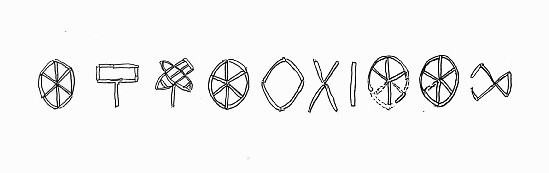 Harappan inscription found near the north gate of the citadel in Dholavira